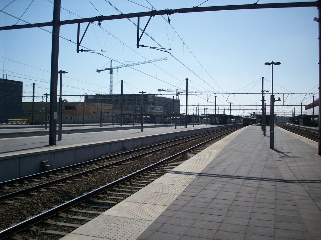 Vision over the platforms at the rail station of Brugge, taken at platform 7-8.